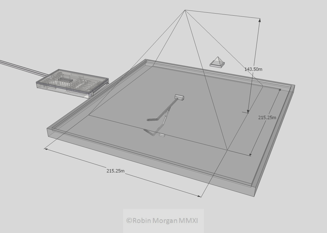 Isometric drawing of the pyramid of Khafre taken from a 3d model